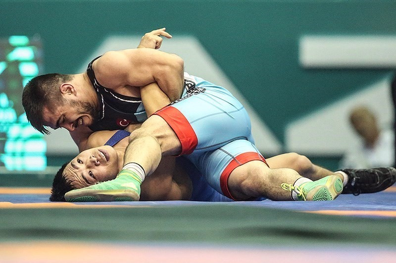 Turkish wrestler Sezar Akgül (on top) and Mongolian wrestler Batbold Sodnomdash in Freestyle World Cup in 57 kg at Imam Khomeini Sport Venue in Kermanshah, Iran on February 16, 2017